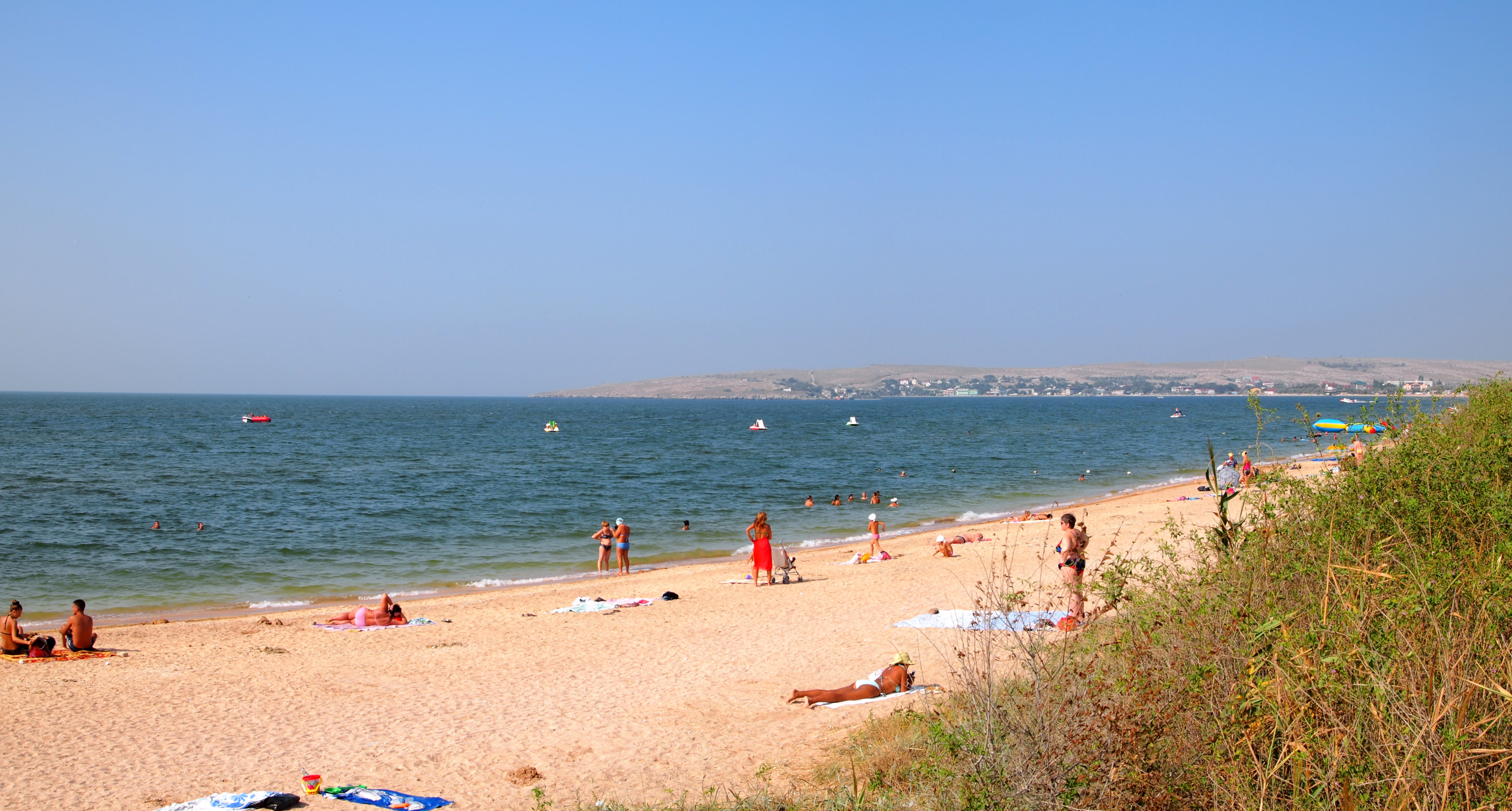 Beach in Shcholkine. This photograph was taken with a Olympus E-PL1.